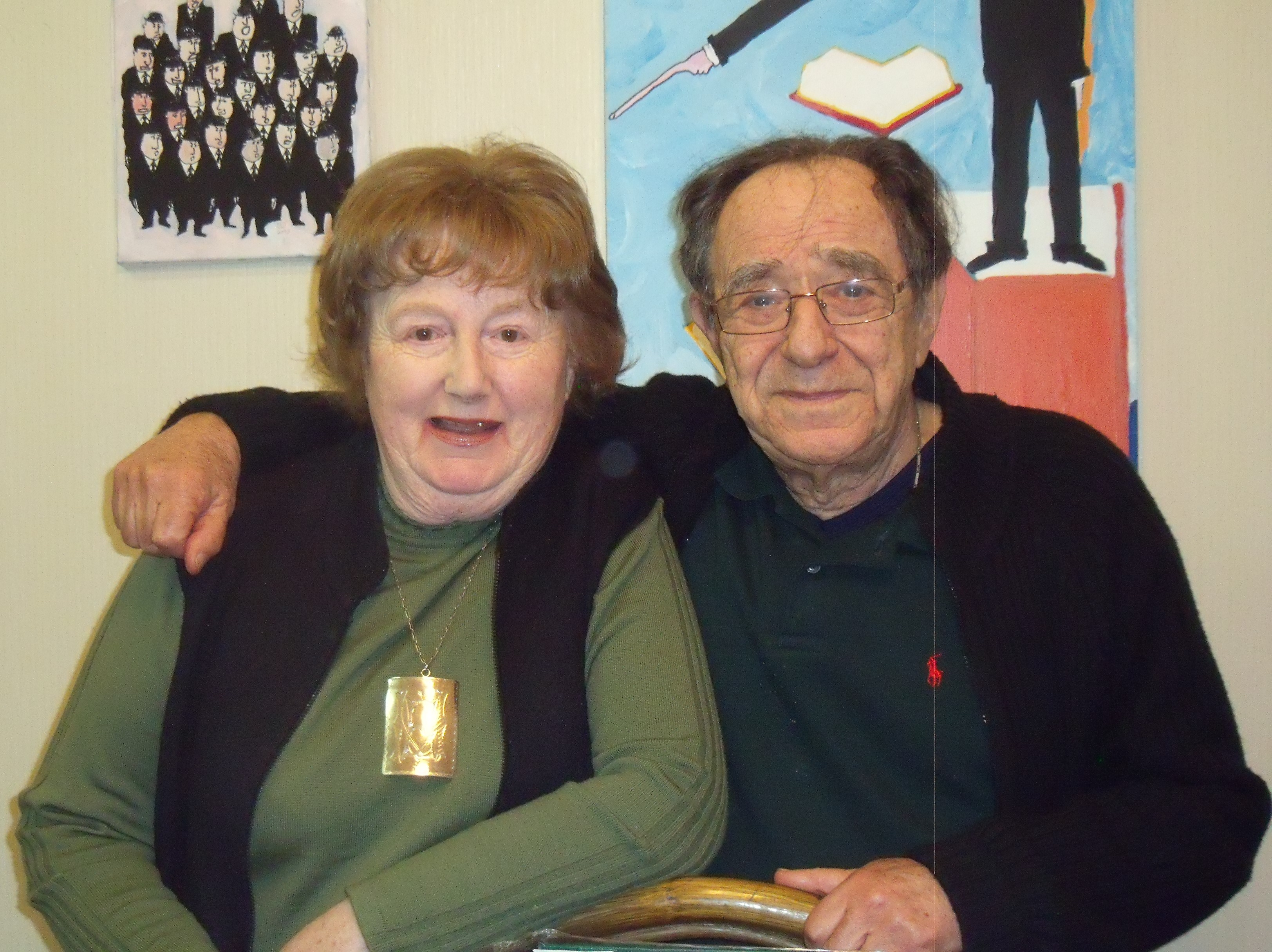 Eva Marks with her husband Stan Marks